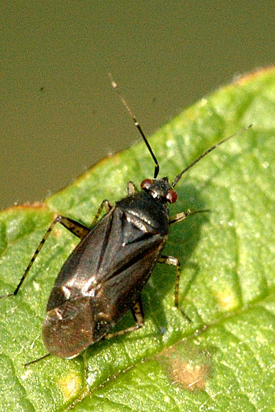 Picture taken in Commanster, Belgian High Ardennes . Species: Plagiognathus arbustorum